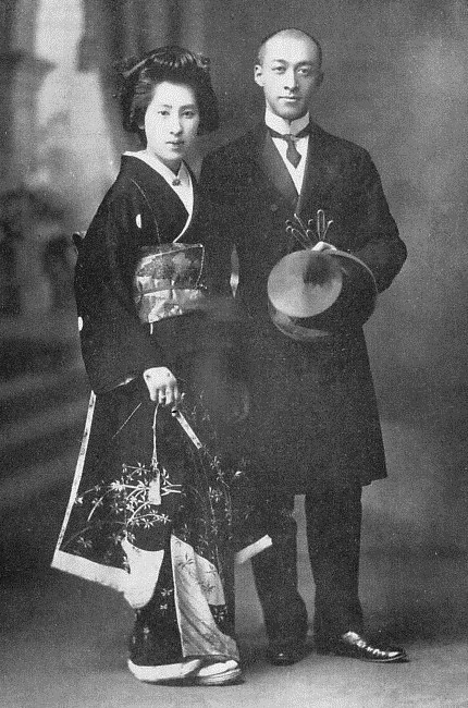 Takesada Tokugawa and his wife